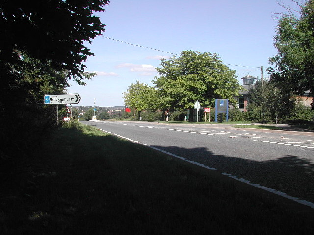 Brackenhurst Campus, Nottingham Trent University. The entrance to the Brackenhurst campus of Nottingham Trent University from the A612. Brackenhurst is home to the School of Animal, Rural and Environmental Science. The campus is located near Southwell, a market town, fourteen miles from Nottingham with regular public transport links into the city centre. It covers over 200 hectares of grounds, organised around a country house.